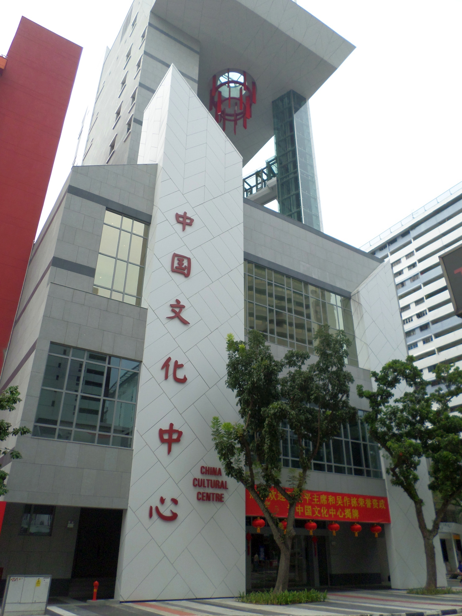 China Cultural Centre, Central Area, Singapore